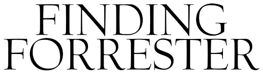 Logo of the film Finding Forrester without background. Image derived from File:Finding Forrester logo.jpg